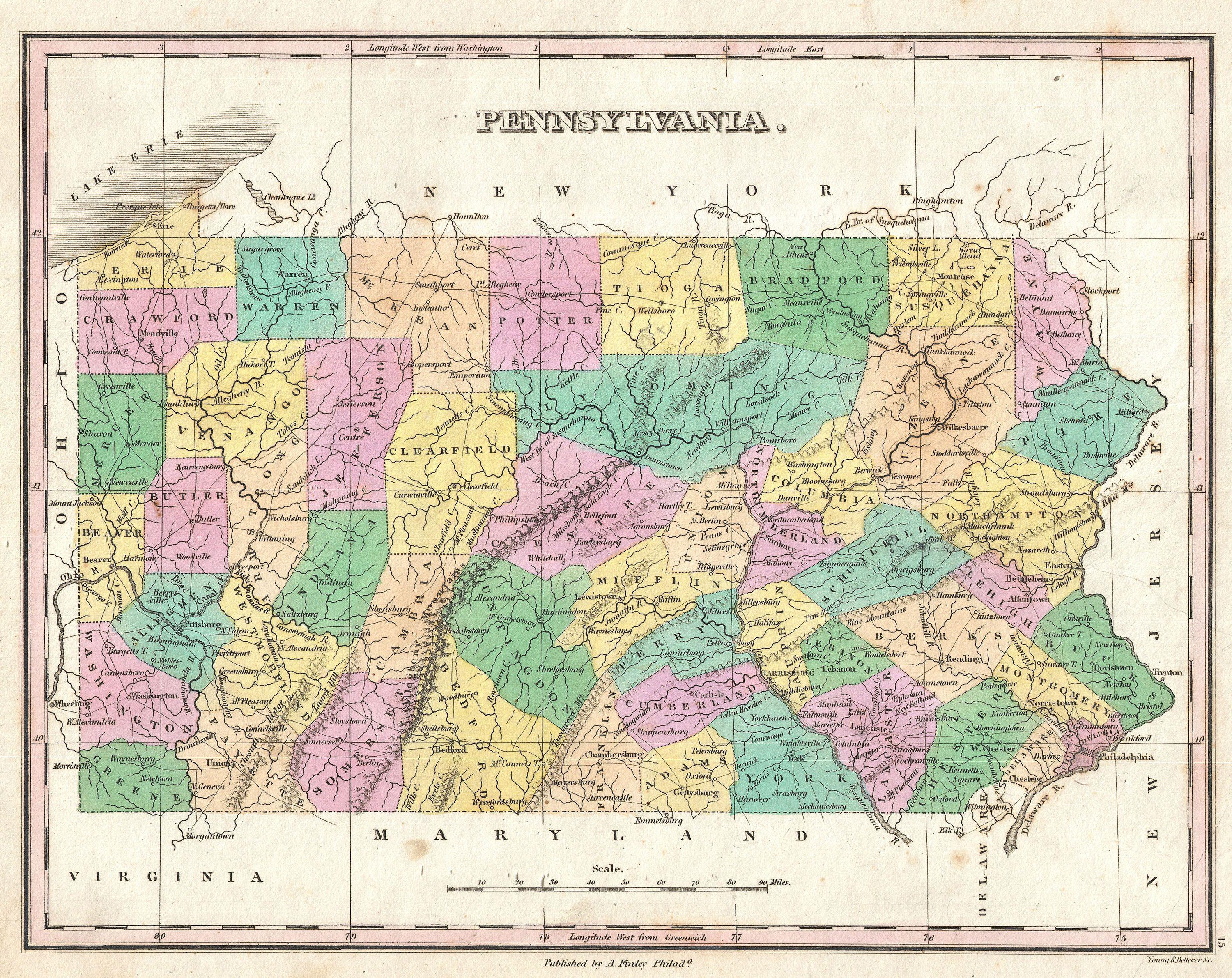 A beautiful example of Finley's important 1827 map of Pennsylvania. Depicts the state with moderate detail in Finley's classic minimalist style. Shows river ways, roads, canals, and some topographical features. Offers color coding at the county level. Title at top center. Scale at bottom center. Engraved by Young and Delleker for the 1827 edition of Anthony Finley's General Atlas The Allegheny Plateau, the Eastern drainage divide, and the emphasis the cartographer placed on the Allegheny Front barrier range is obvious in this minimalist styled 19th century map.So lightly settled were the lands, the cartographer has traced known trails, likely proven wagon tracks (primitive dirt roads) throughout; with the exposed and unsettled lands the work clearly shows their convergence through the few climbable 'gaps in the Allegheny*' Front. Note this map is three years after the legislation authorizing the Allegheny Portage Railroad and the Main Line of Public Works and Pennyslvania Canal System that would connect Philadelphia to the Ohio River. The portage railroad ascends the gap due east of the mining town of Ebensburg, PA. * 'Gaps in the Allegheny' term used in A History of Pennsylvania dated ca. 1893